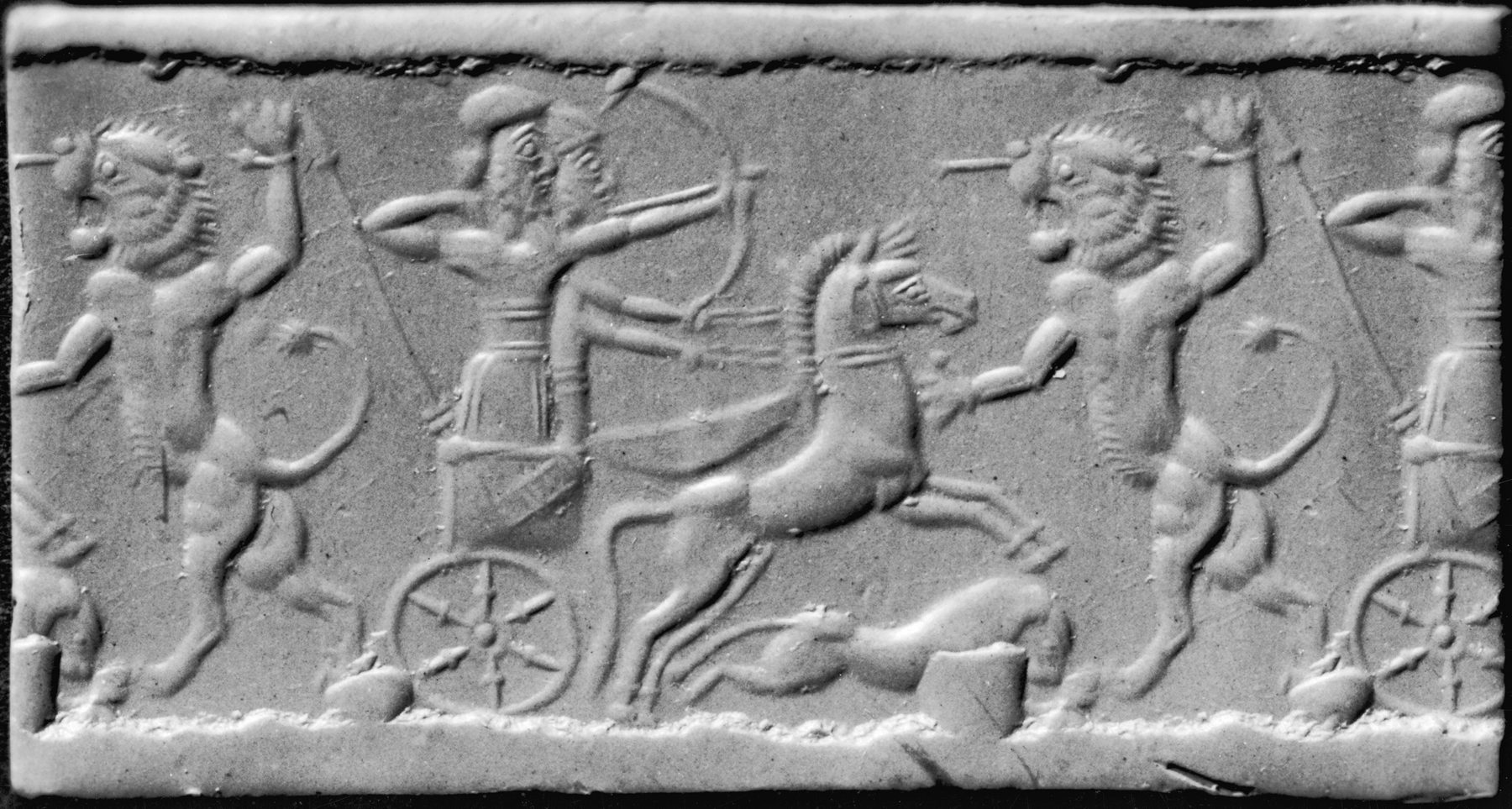 In the 8th and 7th centuries BC, Elam, to the east of Mesopotamia in Iran, experienced a brief period of prosperity during which it allied itself with Babylonia against Assyria. The seals produced in Elam during this period reflect themes derived from Mesopotamia, such as the lion hunt seen here; however, the strong modeling, the almost decorative patterning of the details, and the exaggerated posture of the lion characterize the local Elamite style.